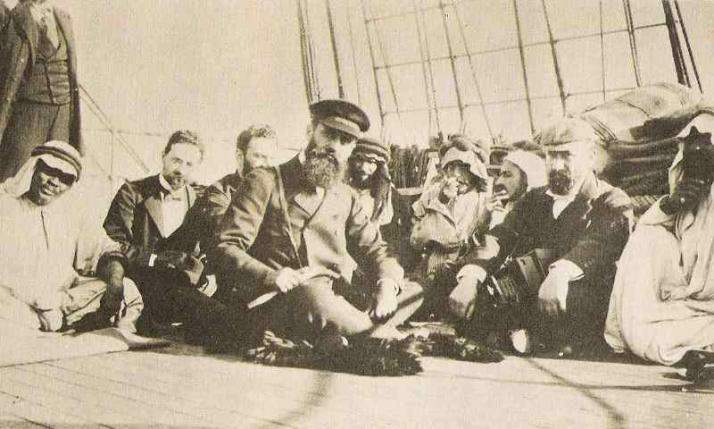 Herzel's Visit To Palestine, People of Israel